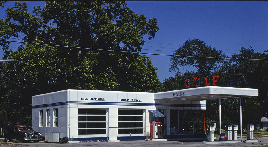 Margolies, John,, photographer. N.J. Brown Gulf gas station, Route 17, Kingsland, Georgia 1979. 1 photograph : color transparency ; 35 mm (slide format). Notes: Title, date and keywords based on information provided by the photographer. Margolies categories: Tile and Deco stations; Gas stations. Please use digital image: original slide is kept in cold storage for preservation. Credit line: John Margolies Roadside America photograph archive (1972-2008), Library of Congress, Prints and Photographs Division. Purchase; John Margolies 2007 (DLC/PP-2007:125). Forms part of: John Margolies Roadside America photograph archive (1972-2008). Subjects: Automobile service stations--1970-1980. United States--Georgia--Kingsland. Format: Slides--1970-1980.--Color For more information, see "John Margolies Roadside America Photograph Archive - Rights and Restrictions Information" Repository: Library of Congress, Prints and Photographs Division, Washington, D.C. 20540 USA, Part Of: Margolies, John John Margolies Roadside America photograph archive (DLC) 2010650110 General information about the John Margolies Roadside America photograph archive is available at Higher resolution image is available (Persistent URL): Call Number: LC-MA05- 15